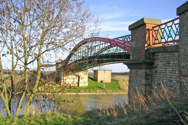 Broughton Bridge: This bridge spans the New River Ancholme.